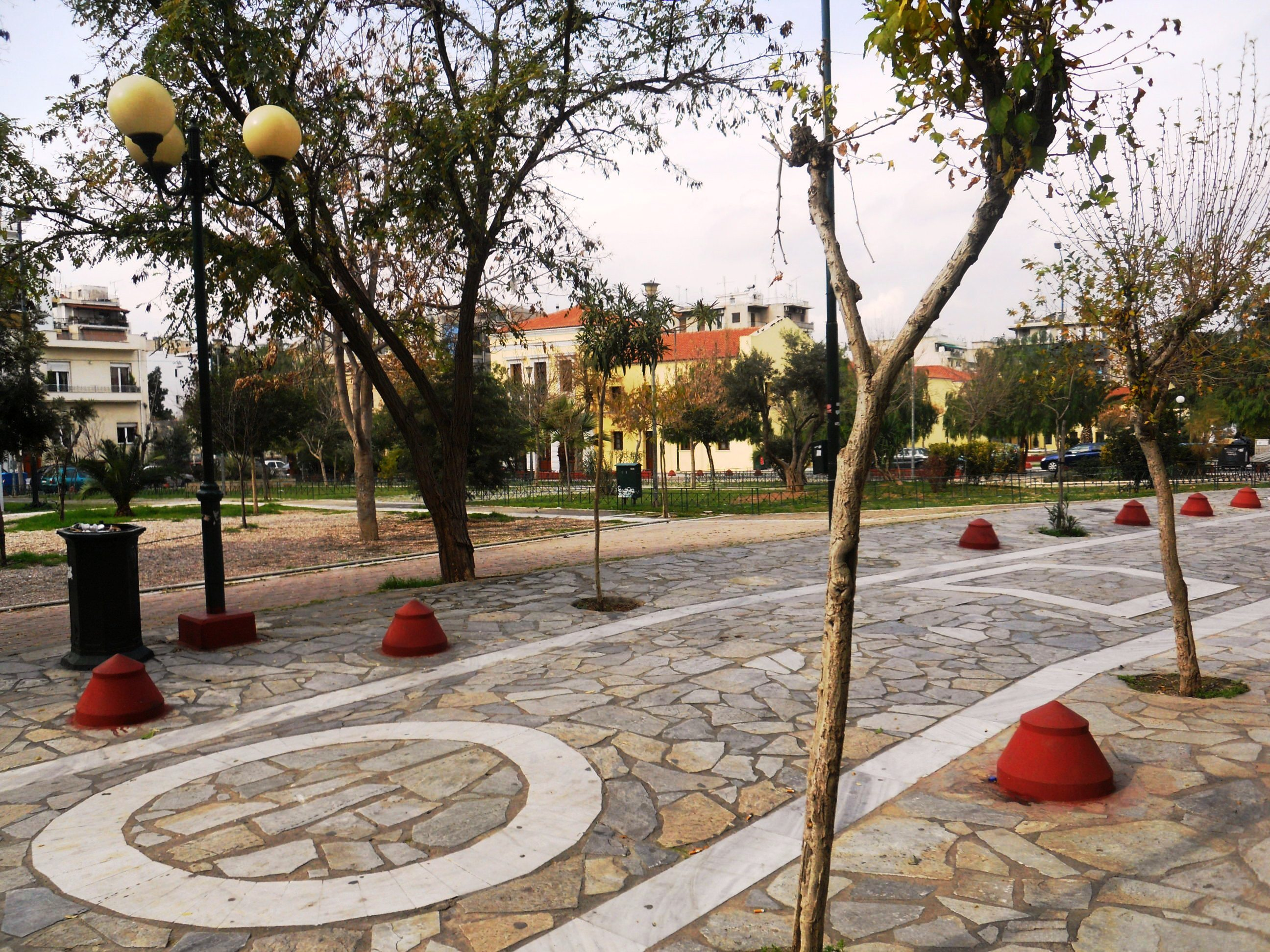 Avdi Square in the Metaxourgeio neighborhood of Athens, Greece.